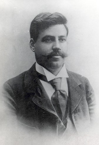 Gotse Delchev, leader of the Bulgarian Macedonian-Adrianople Revolutionary Committees.[93][94]. Goce Delčev, IMRO revolutionary, national hero in both Bulgaria and the Republic of Macedonia. Considered an ethnic Macedonian in the latter. Gotse Delchev.